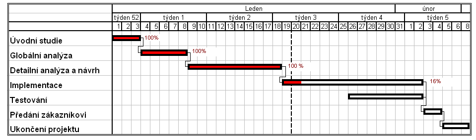 Simple and hopefully illustrative example of a basic Gantt diagram made in Czech language, with inter-activity dependencies and activity progress bars